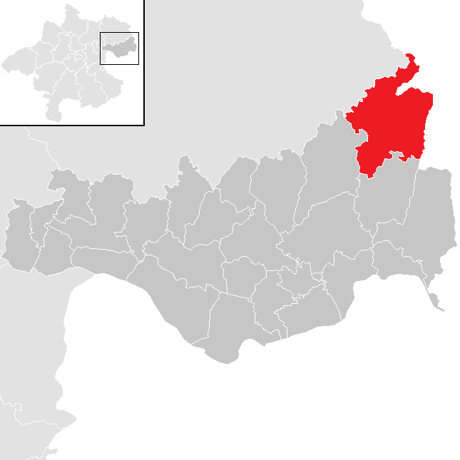 district Perg